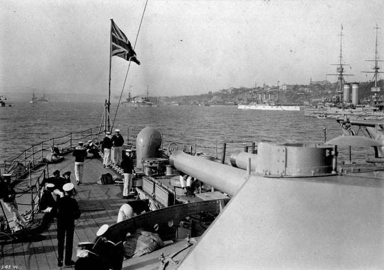 Looking aft over the 12-inch gun turret on British battleship HMS Russell. At the Quebec Tercentenary.